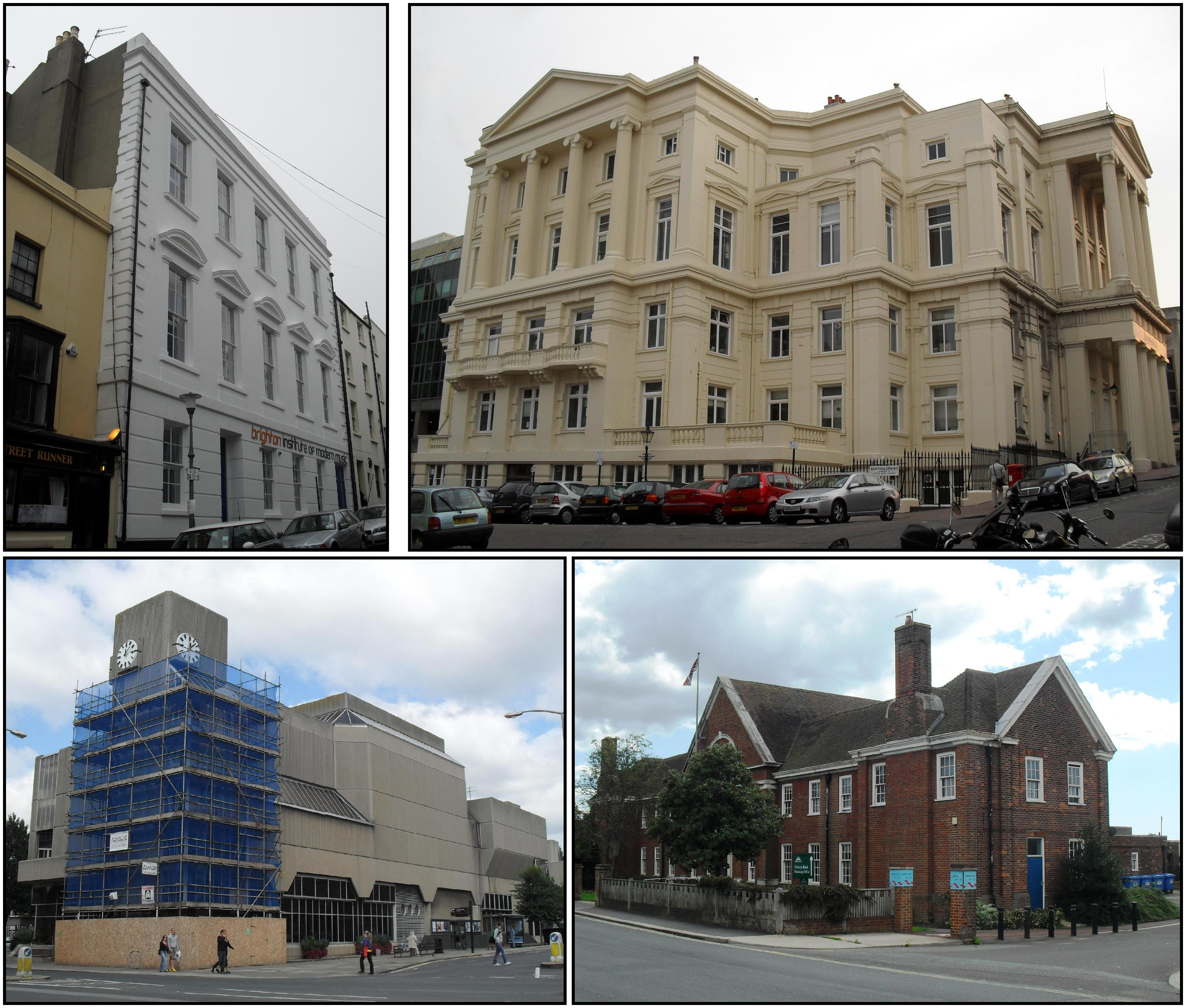 A montage of four town halls in the city of Brighton and Hove, England. Clockwise from top left: former Brunswick Town Hall, Brunswick Street West, Hove (Grade II-listed); Brighton Town Hall, Bartholomews, Brighton (Grade II-listed); Portslade Town Hall, Victoria Road, Portslade; Hove Town Hall, Norton Road, Hove. Taken on 10 July 2010, 25 May 2010, 28 August 2010 and 30 August 2010 respectively. The Brunswick image is a derivative of this image. The Brighton image is a derivative of this image.